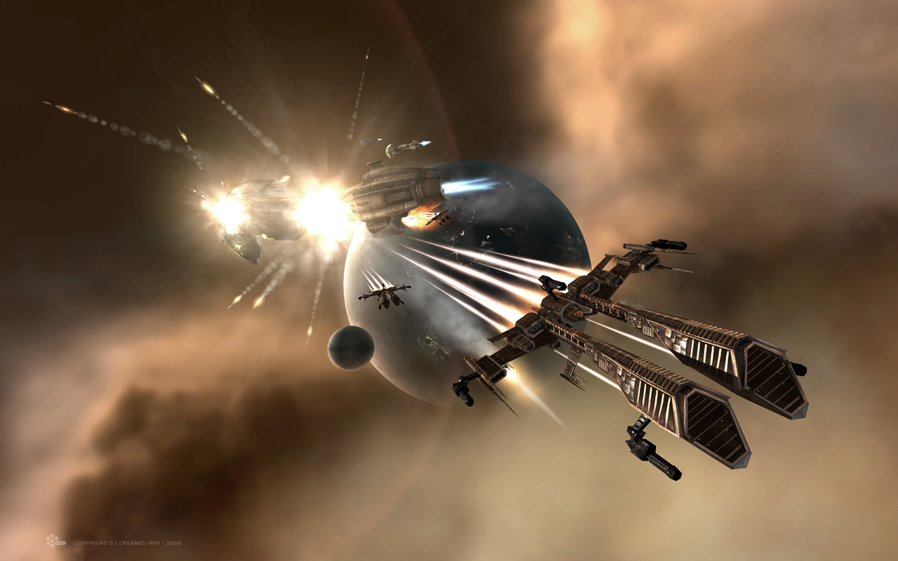 Rifter-class frigate after an attack on an Armageddon-class battleship